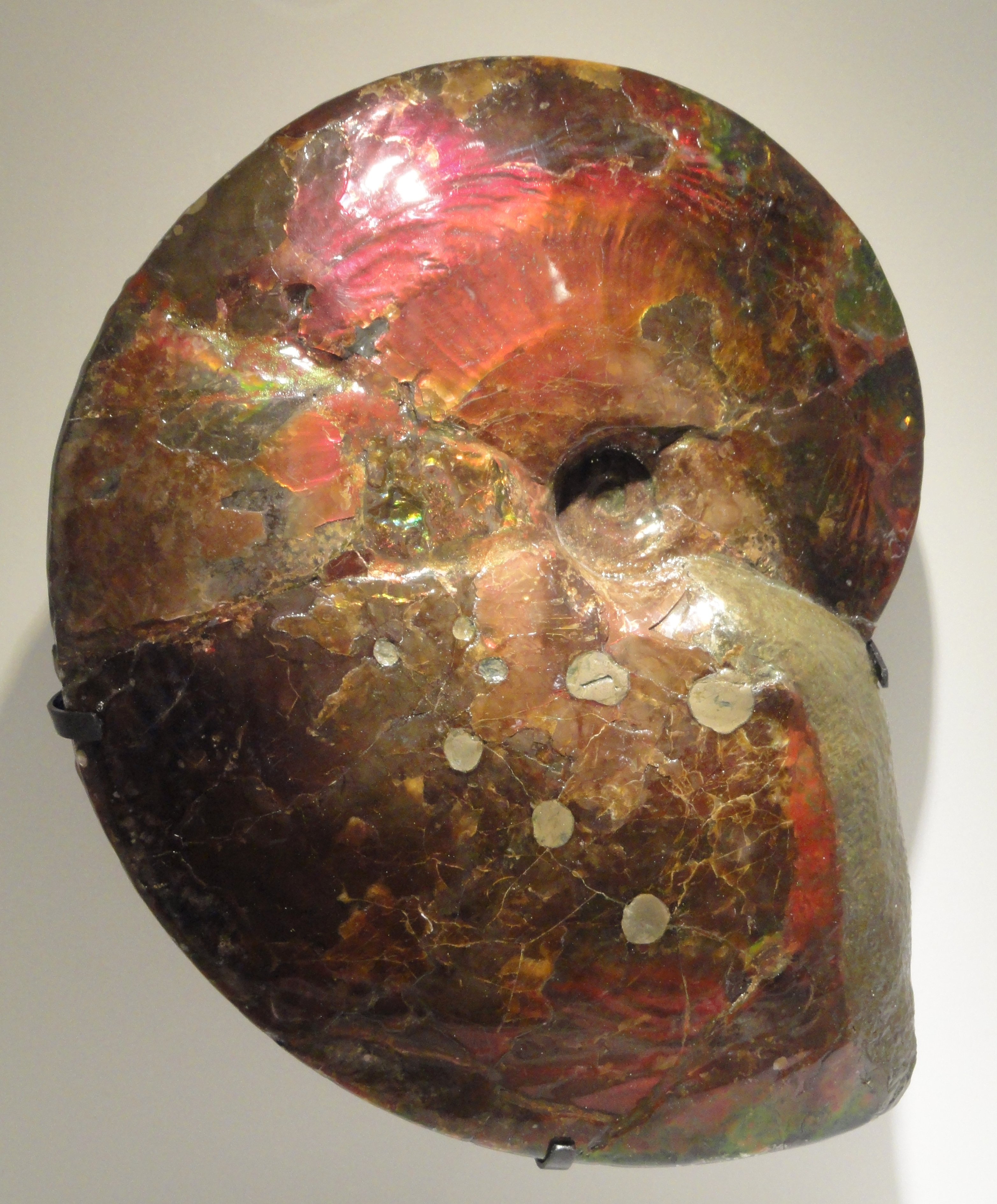 Exhibit in the Houston Museum of Natural Science, Houston, Texas, USA.